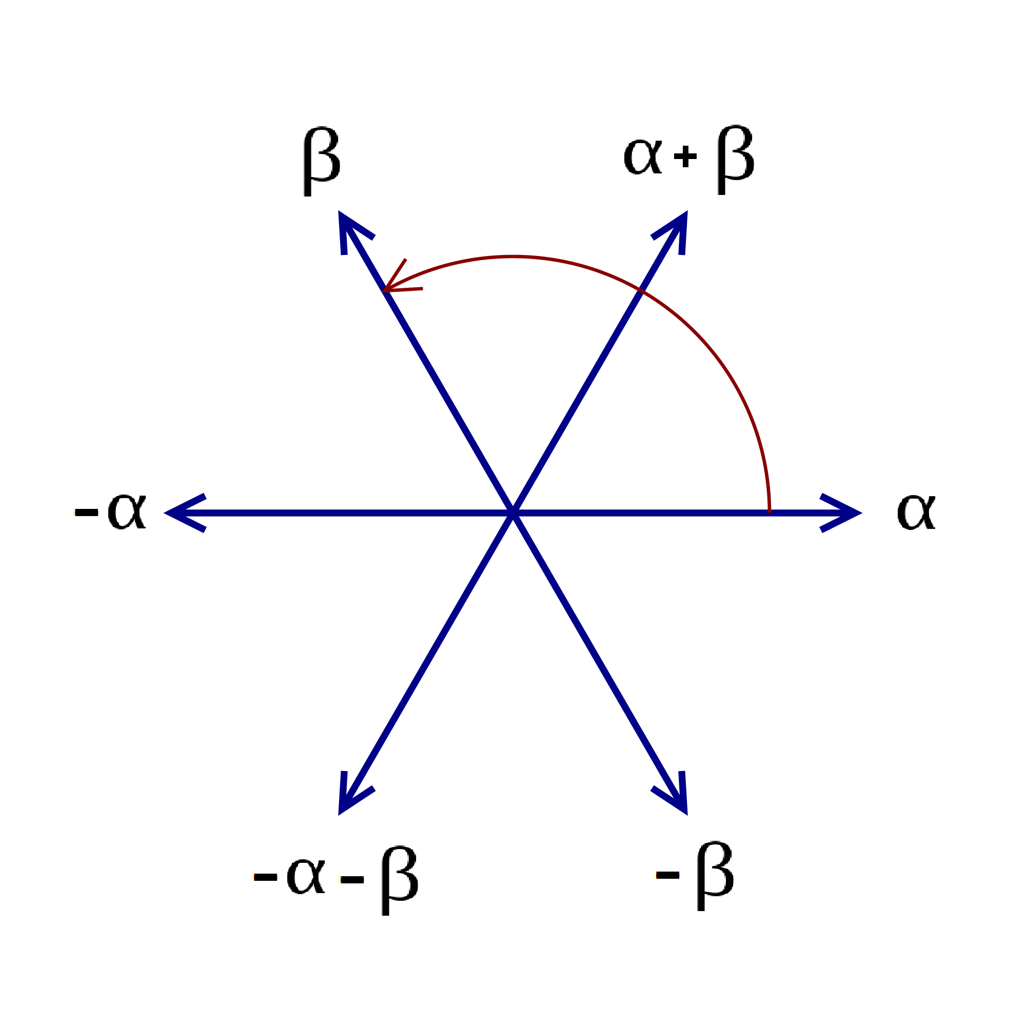 Diagram of the A2 root system.